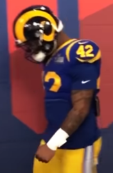 In 2019